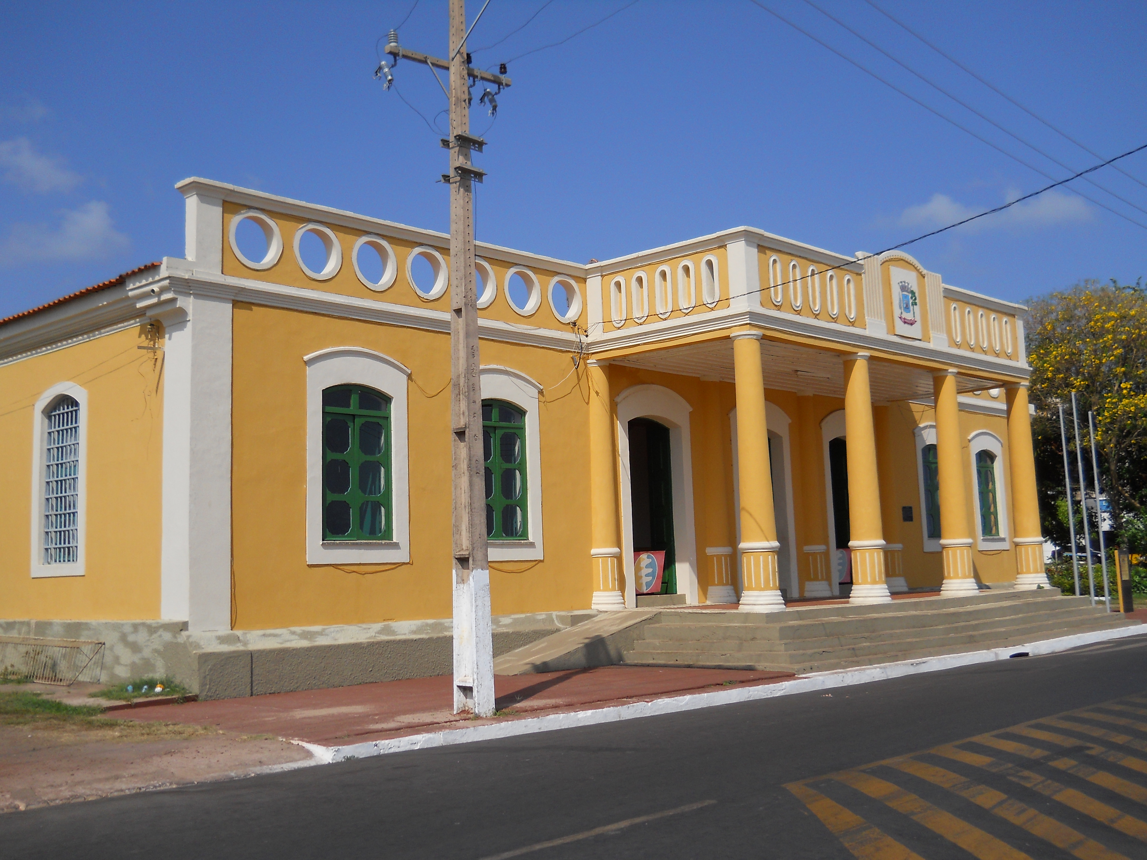 Museum of Santarem